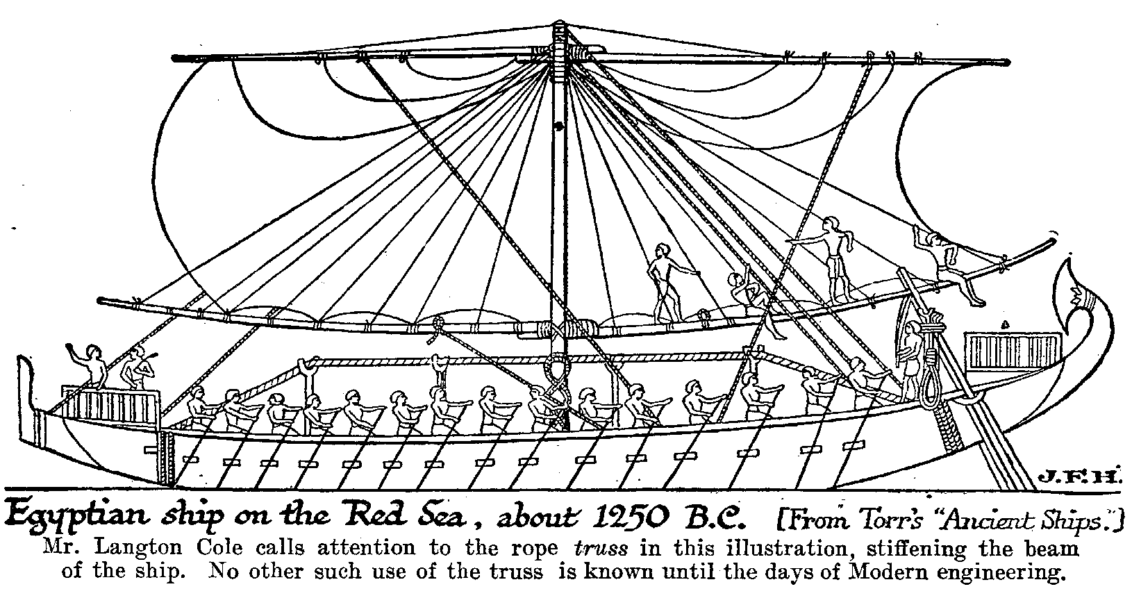 Egyptian ship on the Red Sea, about 1250 B.C. [From Torr's "Ancient Ships"]. Mr. Lanton Cole calls attention to the rope truss in this illustration, stiffening the beam of the ship. A similar device was later used in Greek triremes.